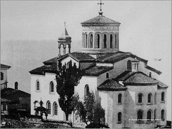 Trabzon, Saint Gregory of Nyssa Cathedral (destroyed 1930)